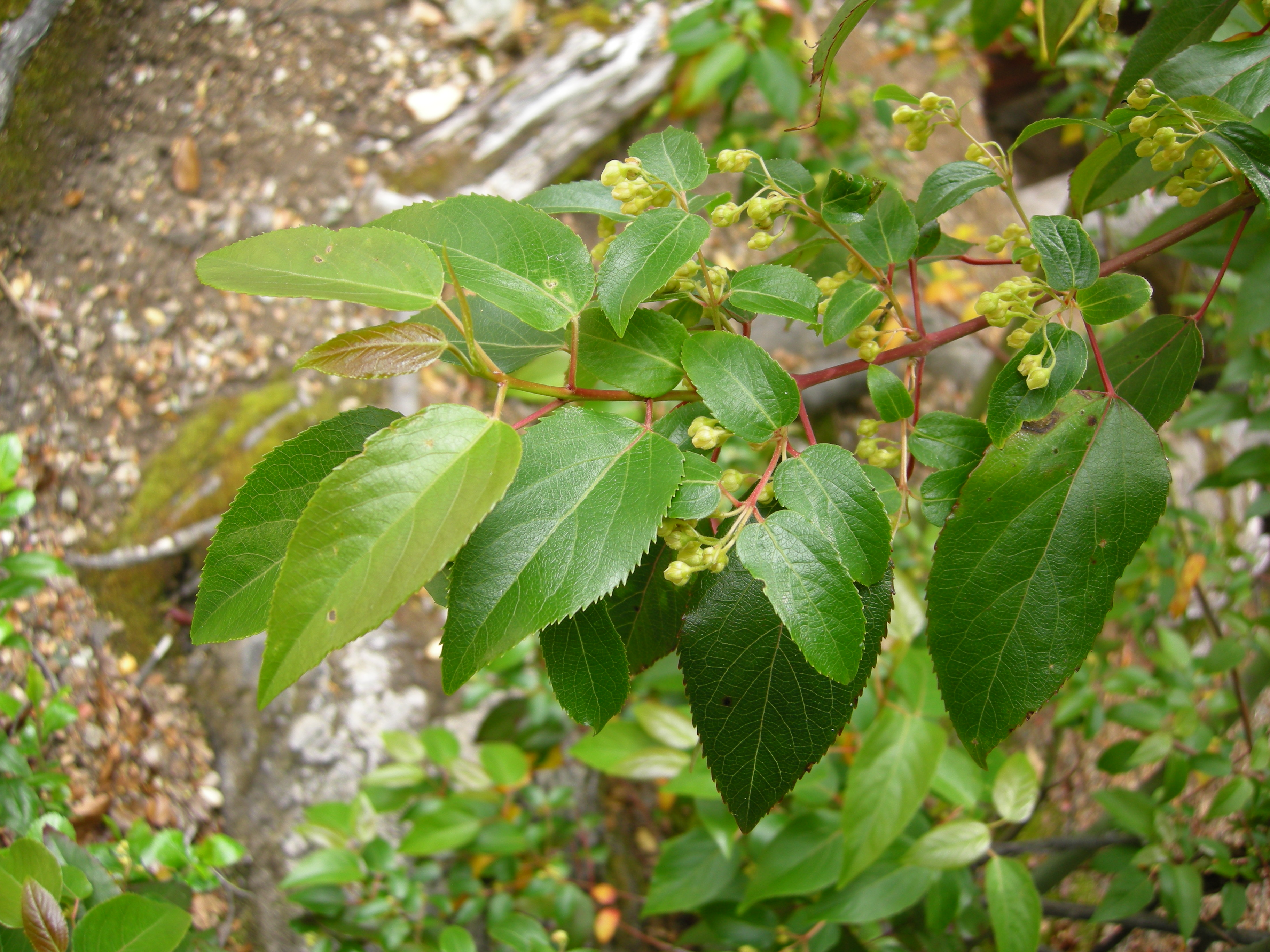 Branch of Aristotelia chilensis. Picture taken in Los Alerces National Park (Chubut province, Argentina).